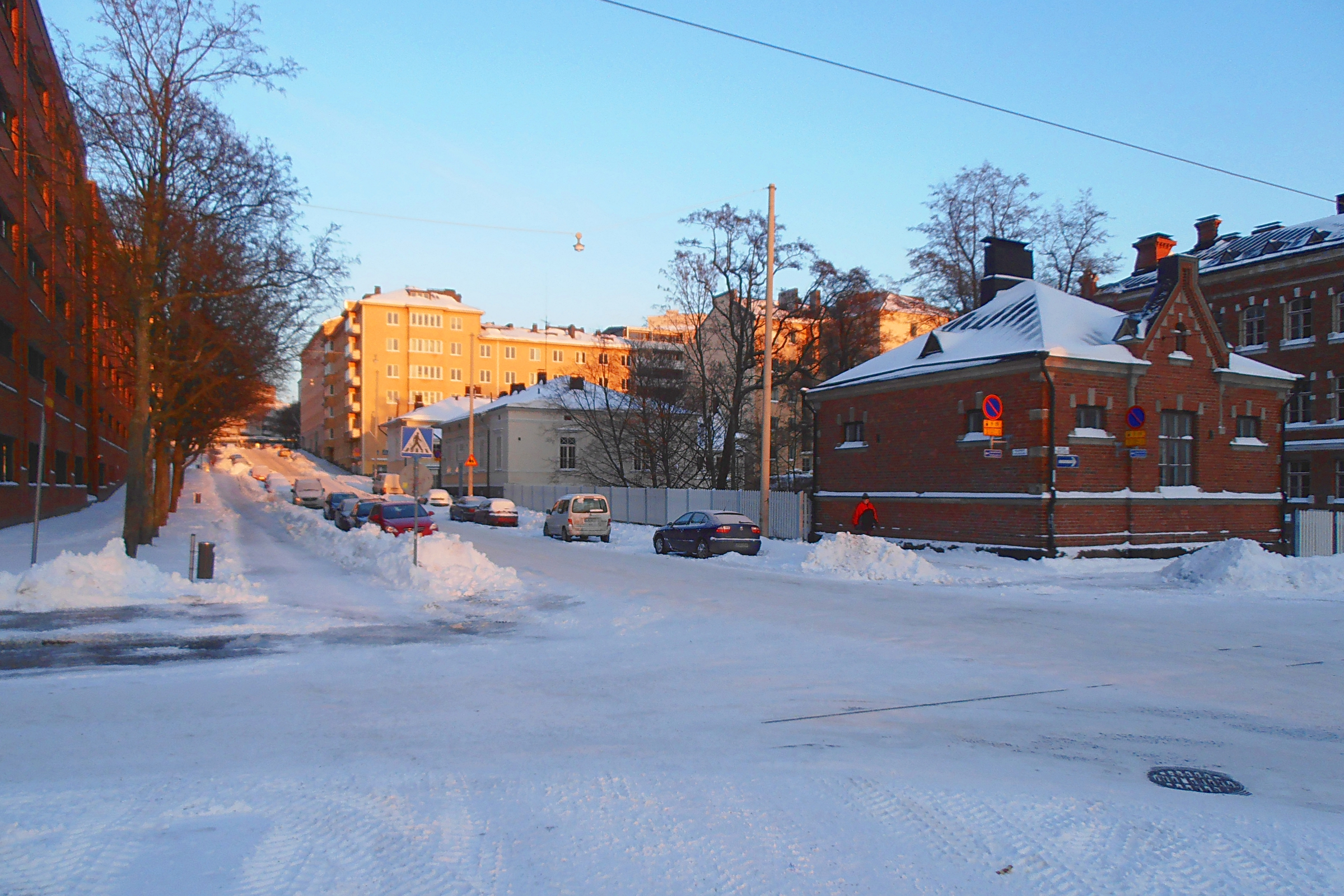 The street Wallininkatu as seen from the crossing of the street Ensi linja; Kallio, Helsinki, Finland. Season: Early winter. Conditions: Snowy, sunny, icy; sunshine's low due to season and geographical location.